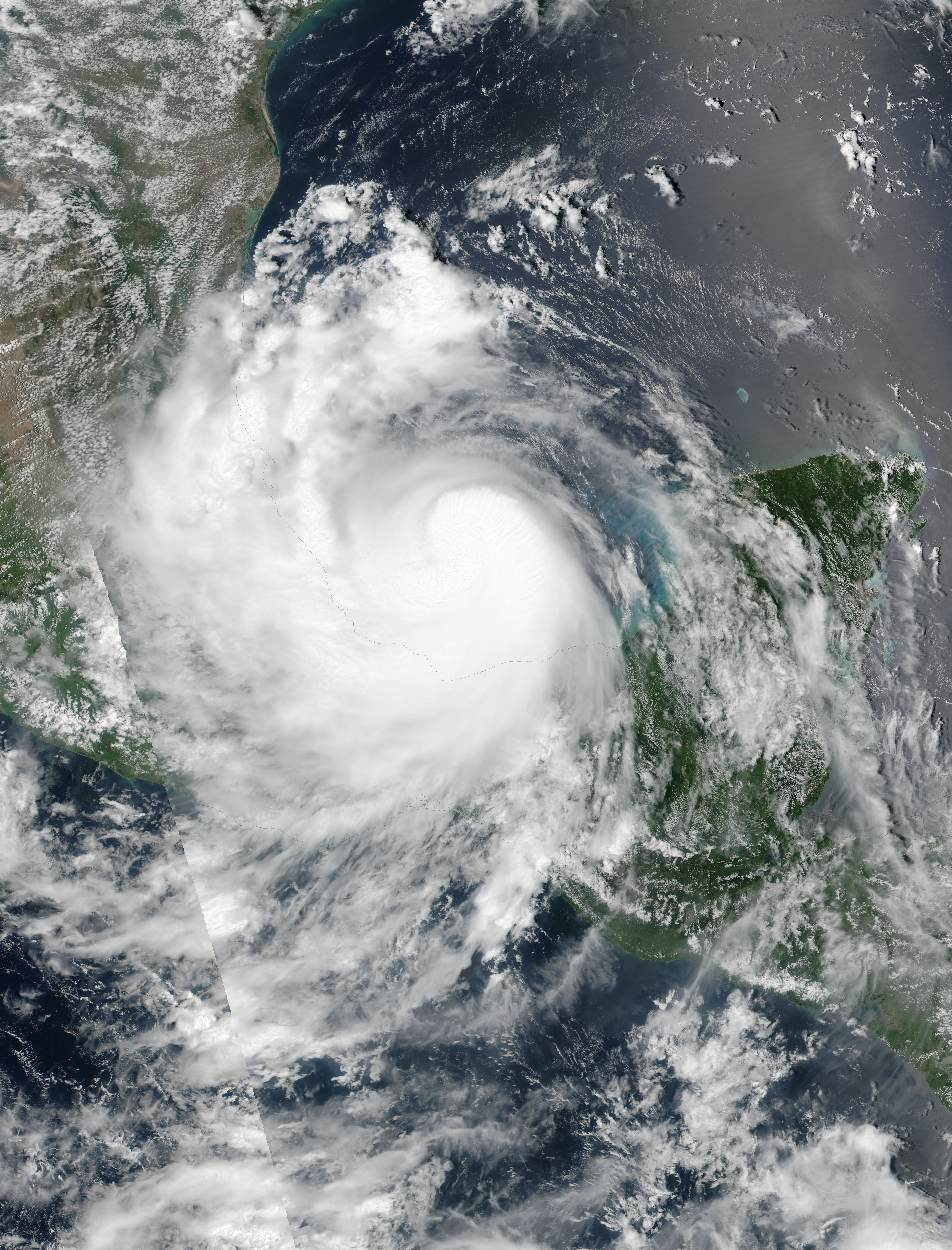 Hurricane Franklin (07L) over Mexico